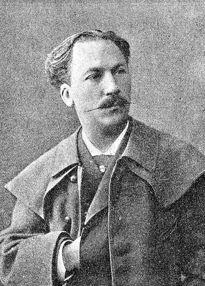 French illusionist Marius Cazeneuve (1839-1913). Illustration from À la Cour de Madagascar, Magie et diplomatie, par Marius Cazeneuve, médecin et conseiller intime de la reine de Madagascar, Ranavalo Manjaka, C. Delagrave, Paris, 1896.